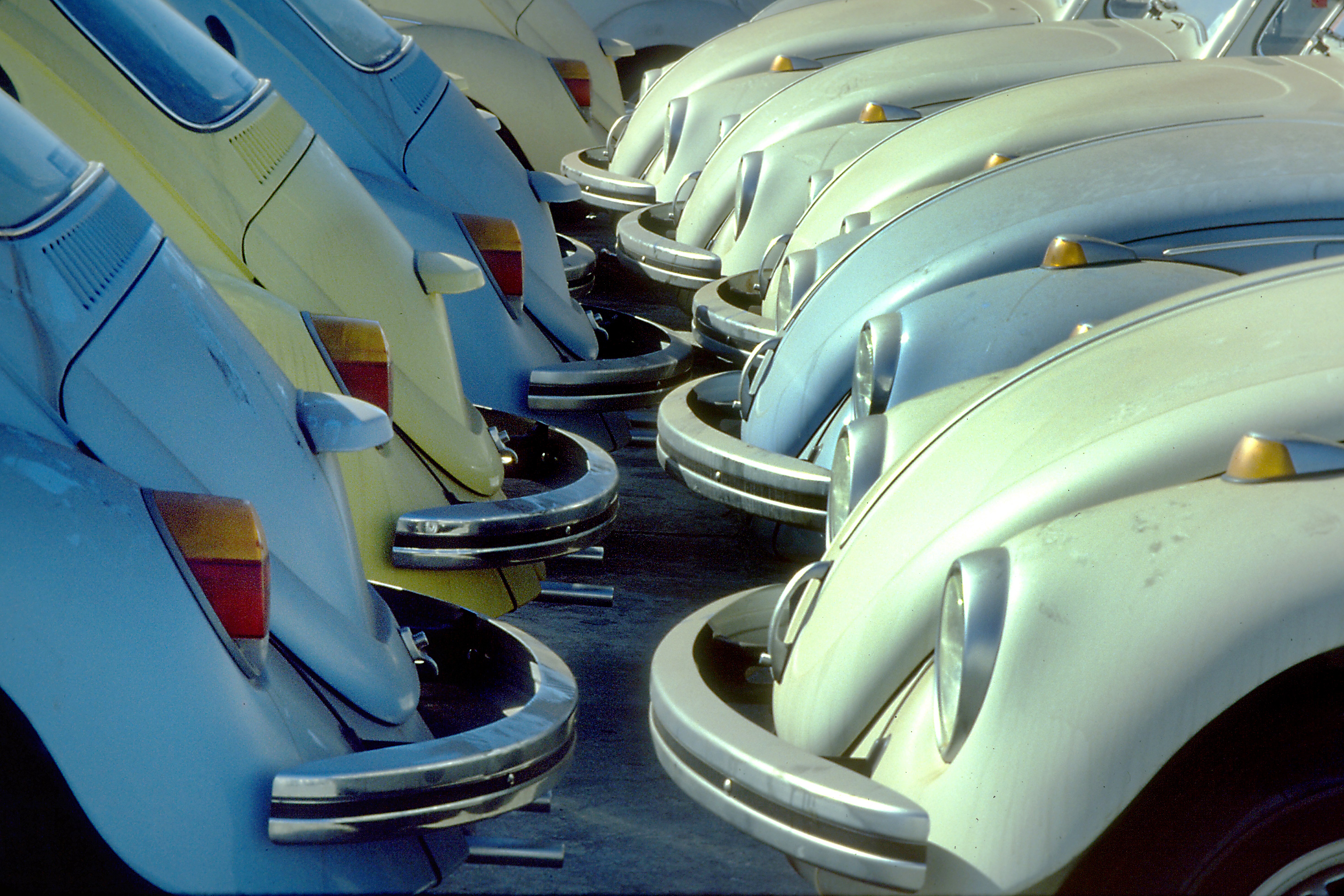 Unpolished Volkswagen Beetle cars waiting for delivery in Nassau harbor, the Bahamas, December 1979.